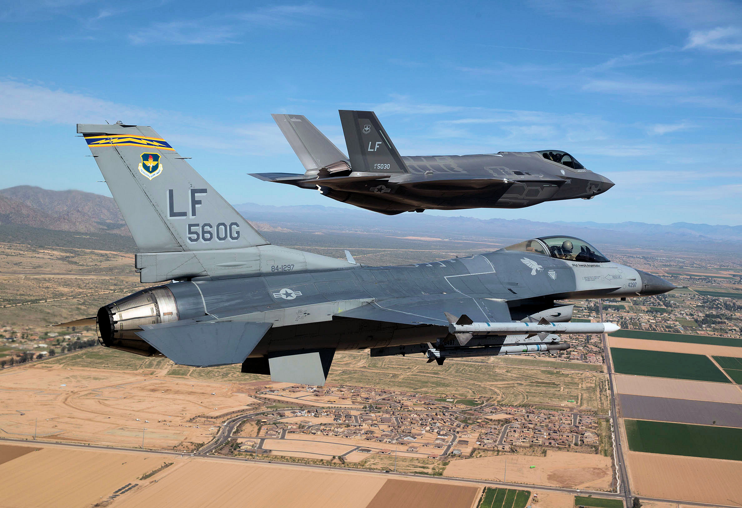 Maj. Justin Robinson flies the 56th Operations Group flagship F-16 Fighting Falcon (84-1297) as he escorts Luke Air Force Base's first F-35 Lightning II (10-5030) to the base March 10, 2014. The F-35 was flown by Col. Roderick Cregier, an F-35 test pilot stationed at Edwards AFB, Calif. Robinson is the 61st Fighter Squadron assistant director of operations. (U.S. Air Force photo/Jim Hazeltine)